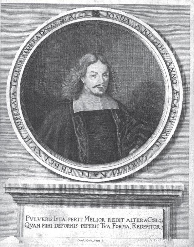 Picture of Josua Arnd